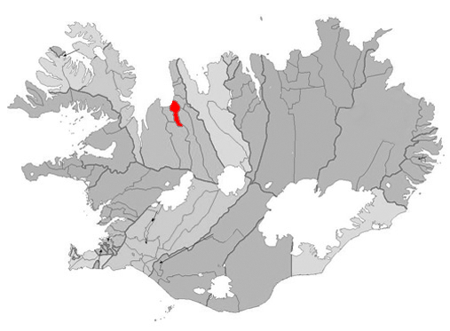 Based on Municipalities of Iceland.png.